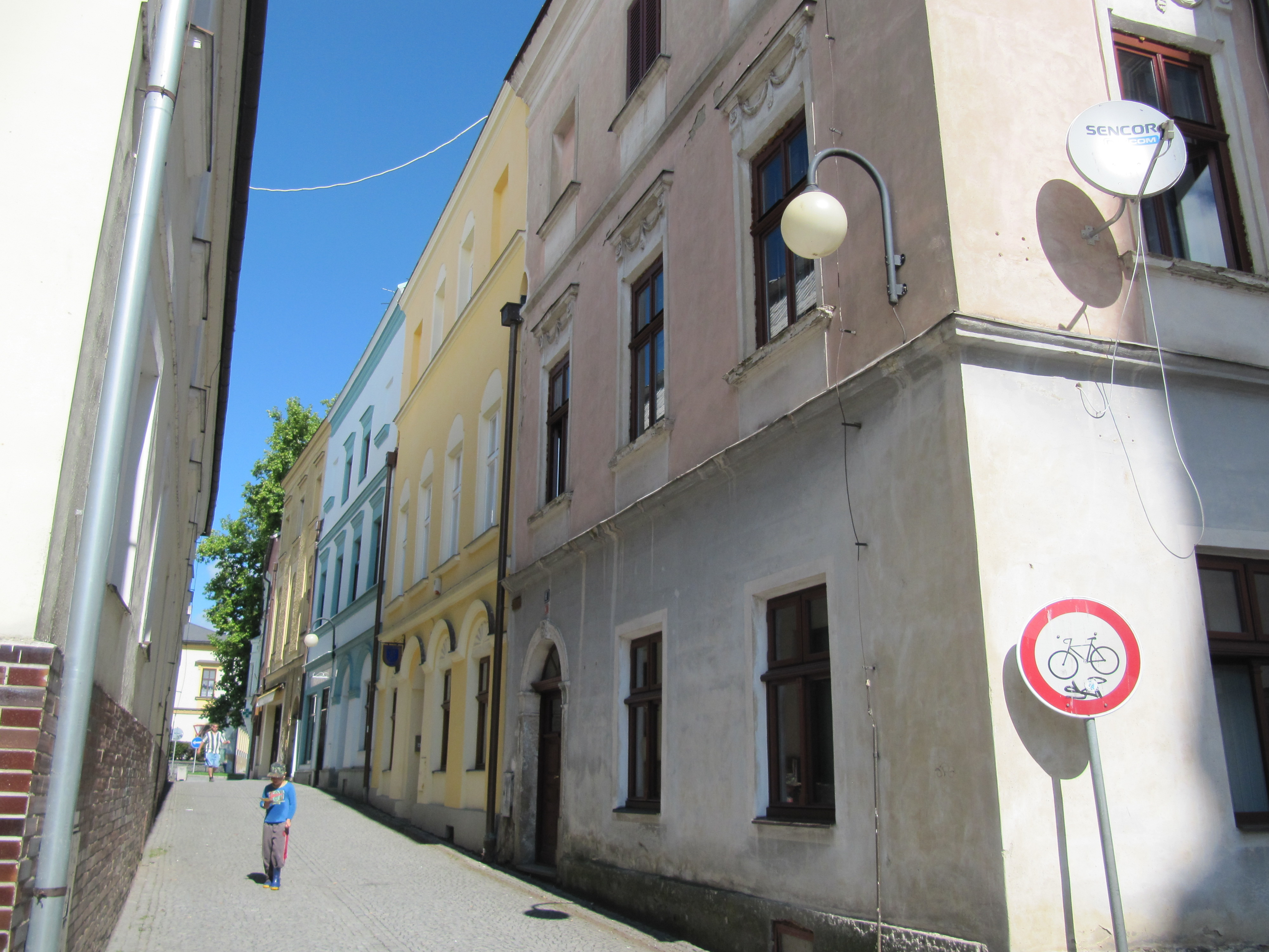 Odry in Nový Jičín District, Czech Republic. Kostelní street.